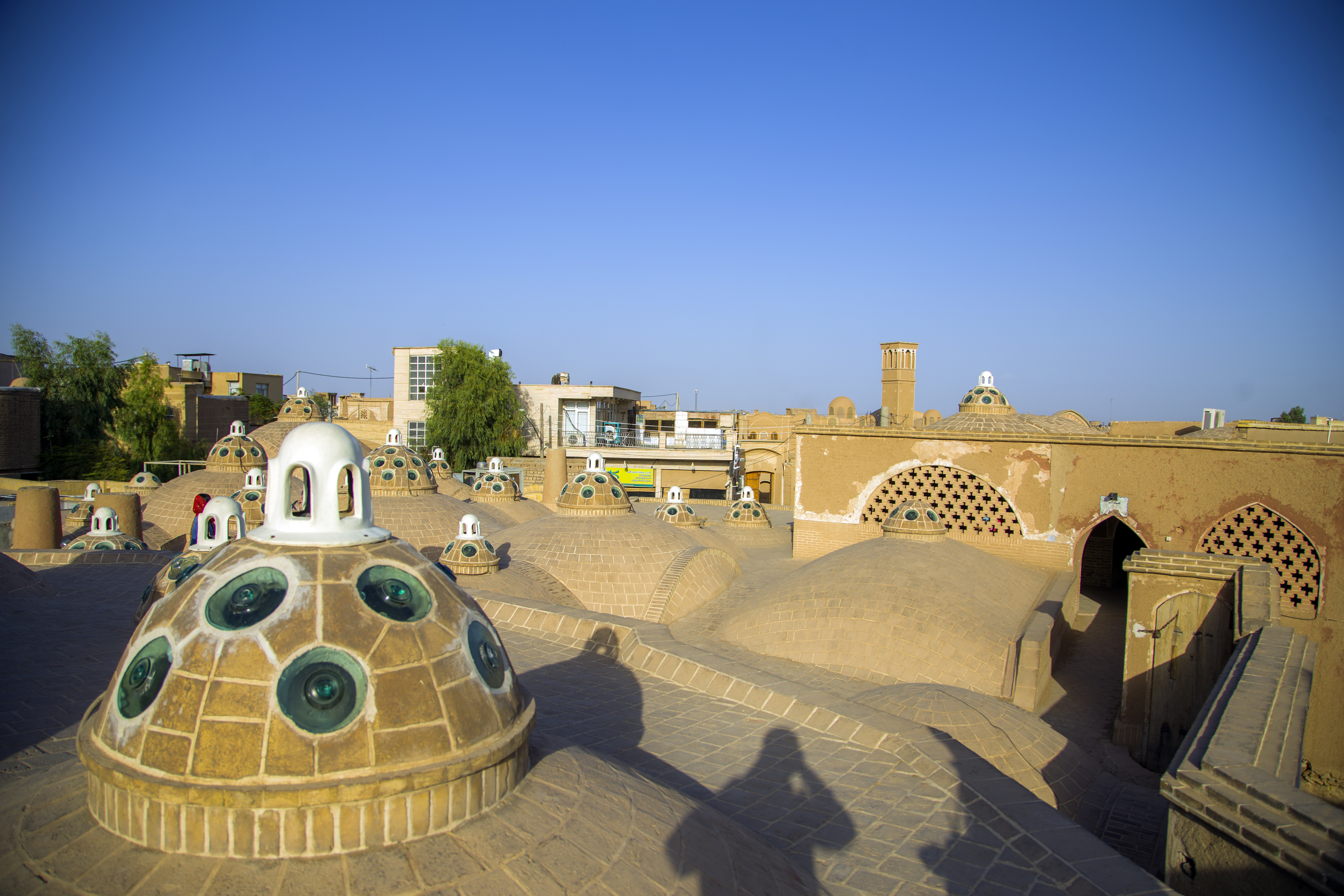 Sultan Amir Ahmad Bathhouse also known as the Qasemi Bathhouse, is a traditional Iranian public bathhouse in Kashan, Iran.